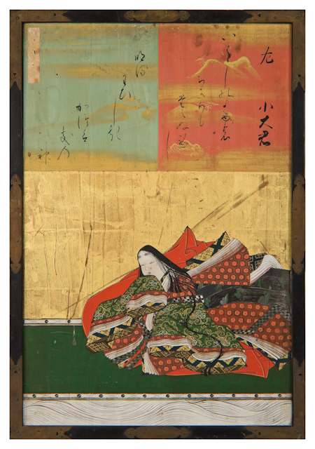 Sanjūrokkasen-gaku (Thirty-six Poetry Immortals framed picture) #22: Kodai no Kimi